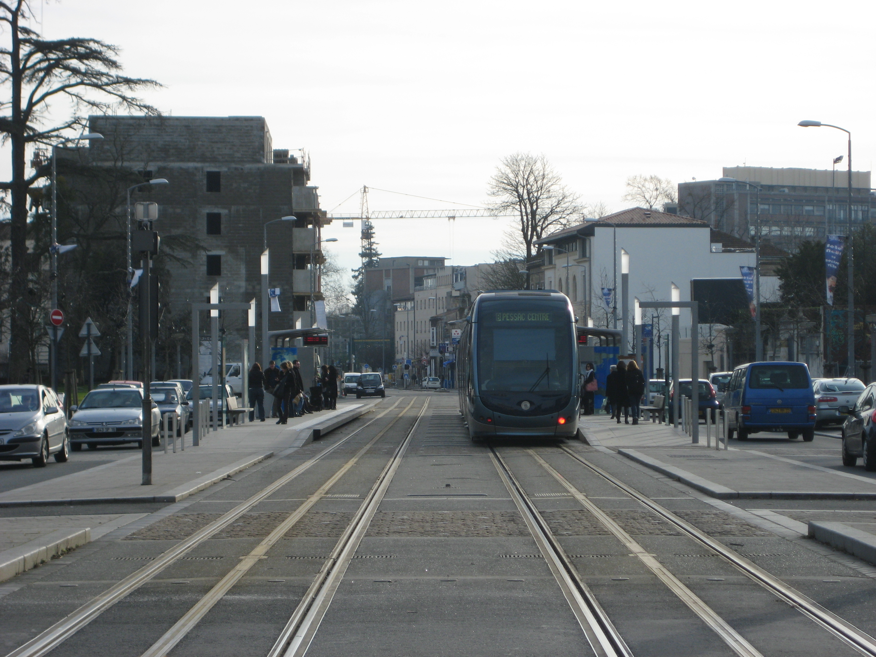 Station Forum on the Tramway de Bordeaux